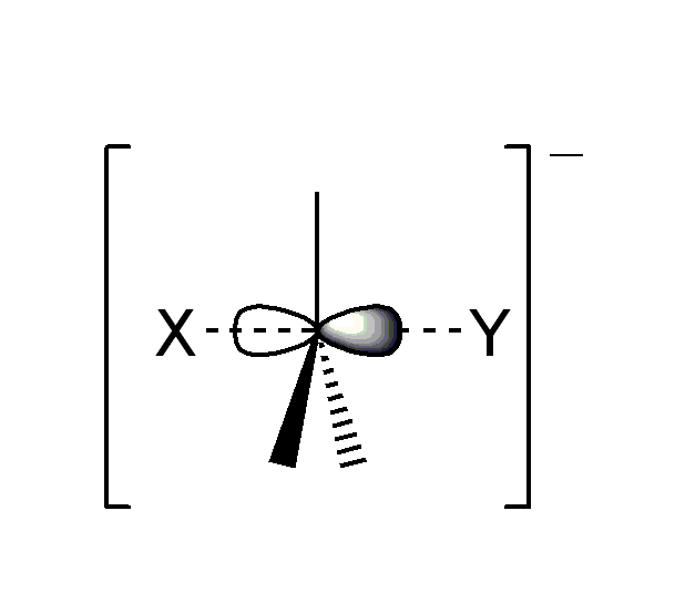 Structure of the intermediate in an SN2 reaction. Drawn in ChemDraw by User:Walkerma, September 2005.